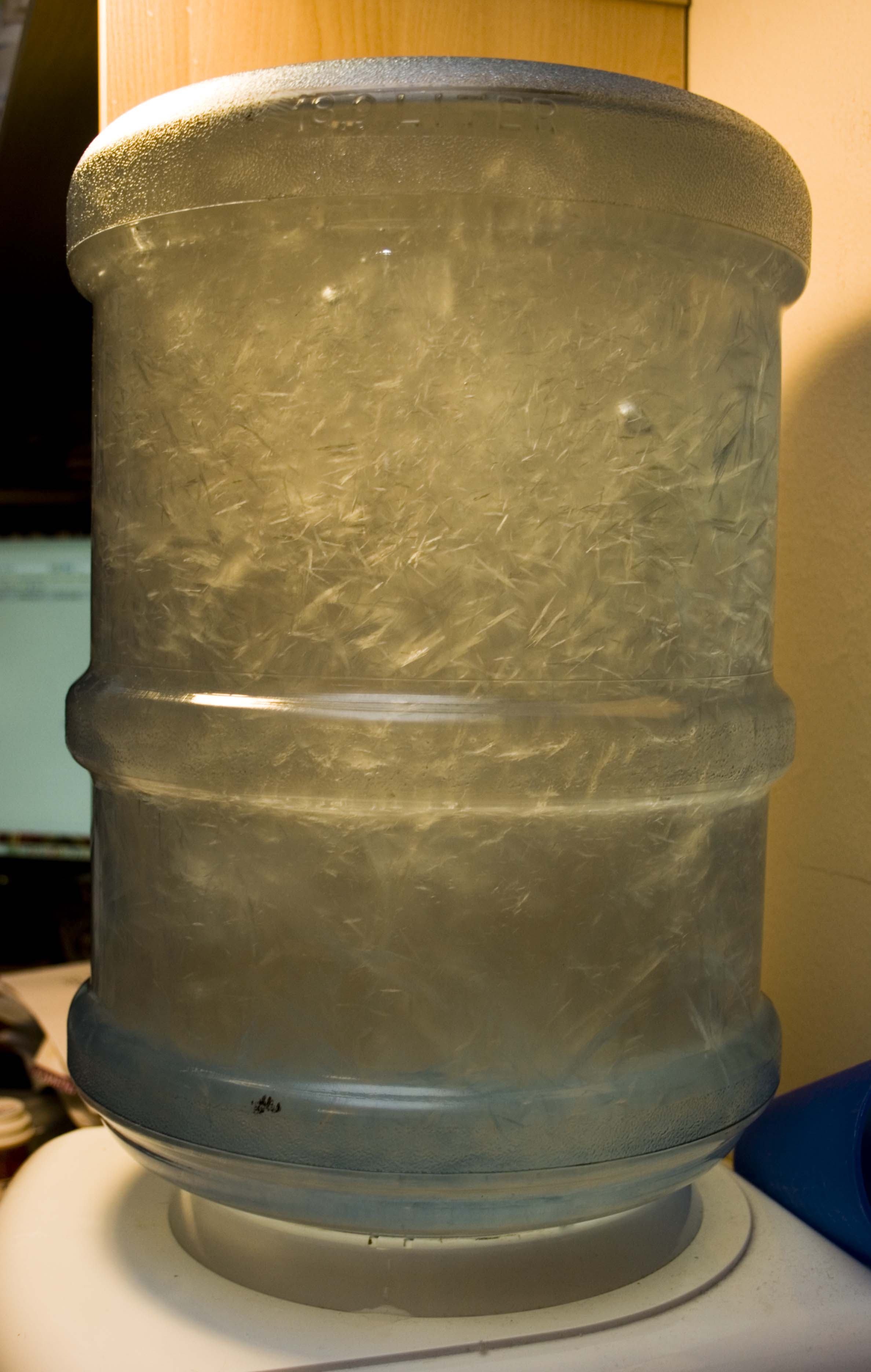 Supercooled water in a 5-gallon water carboy, after having been disturbed, causing rapid formation of ice crystals